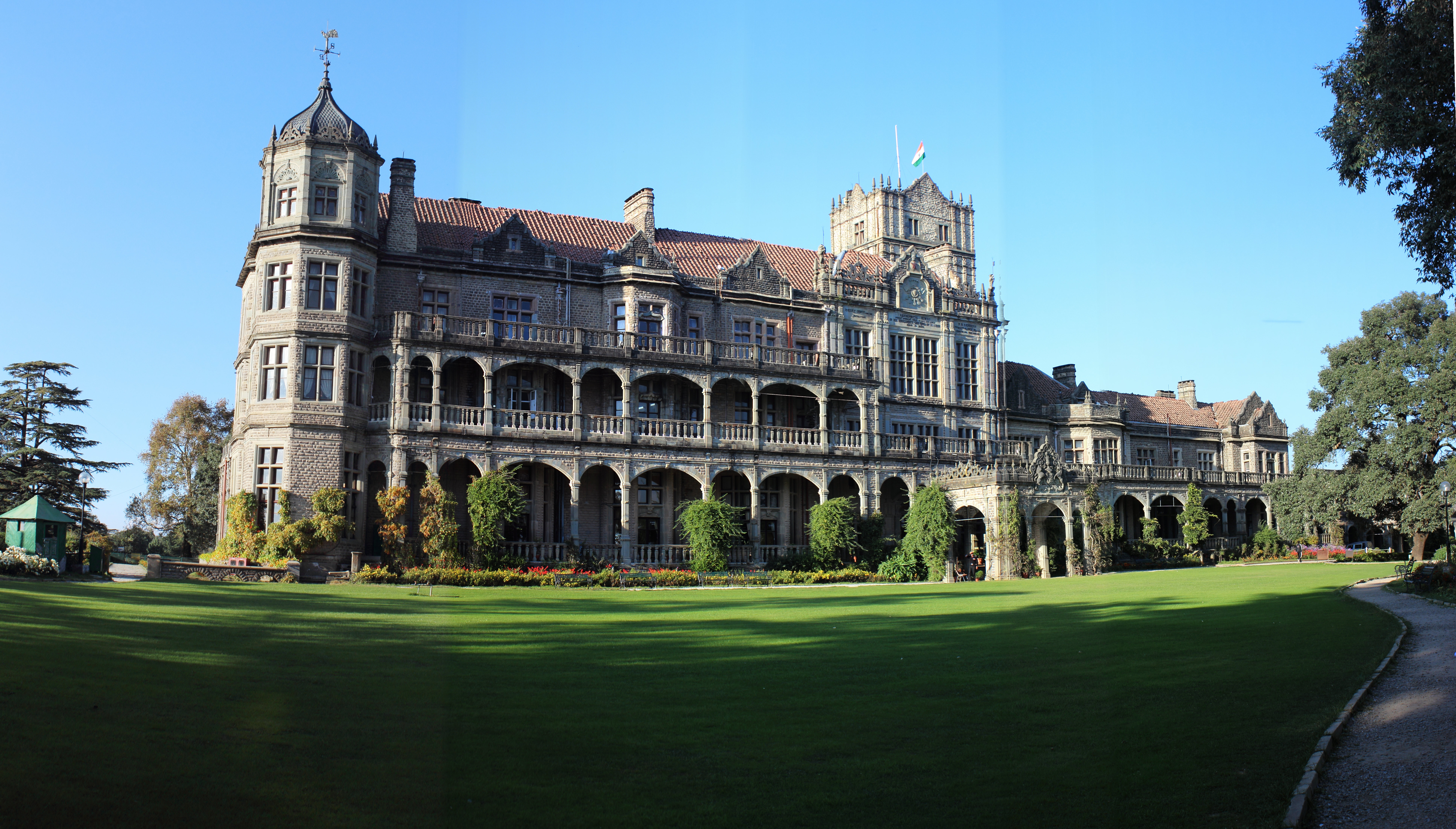 Formerly ViceRegal Lodge, Summer Home of the Viceroy of India